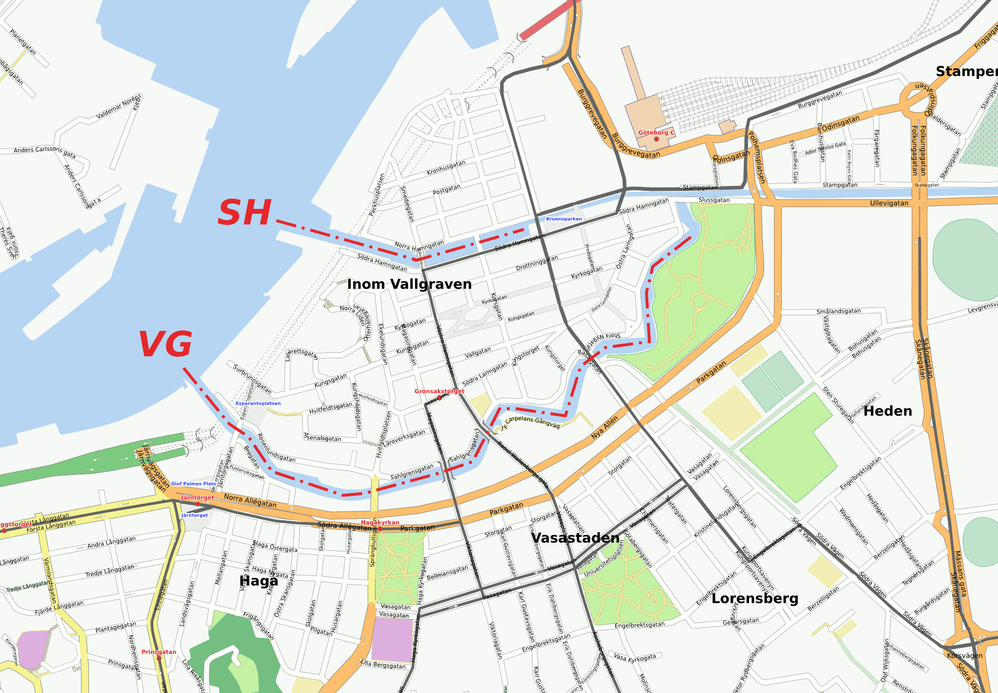 Map of downtown Göteborg = Göteborg with major canals marked (SH, Stora Hamnkanalen and VG, Vallgraven). This map is based on Image:OSM-Goteborg.png